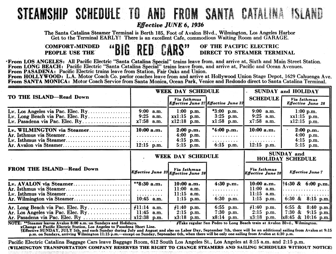 Steamship Schedule To and From Santa Catalina Island, California, via the SS Catalina and SS Avalon Effective June 6, 1936